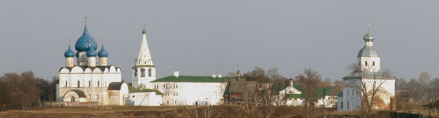 Suzdal kremlin